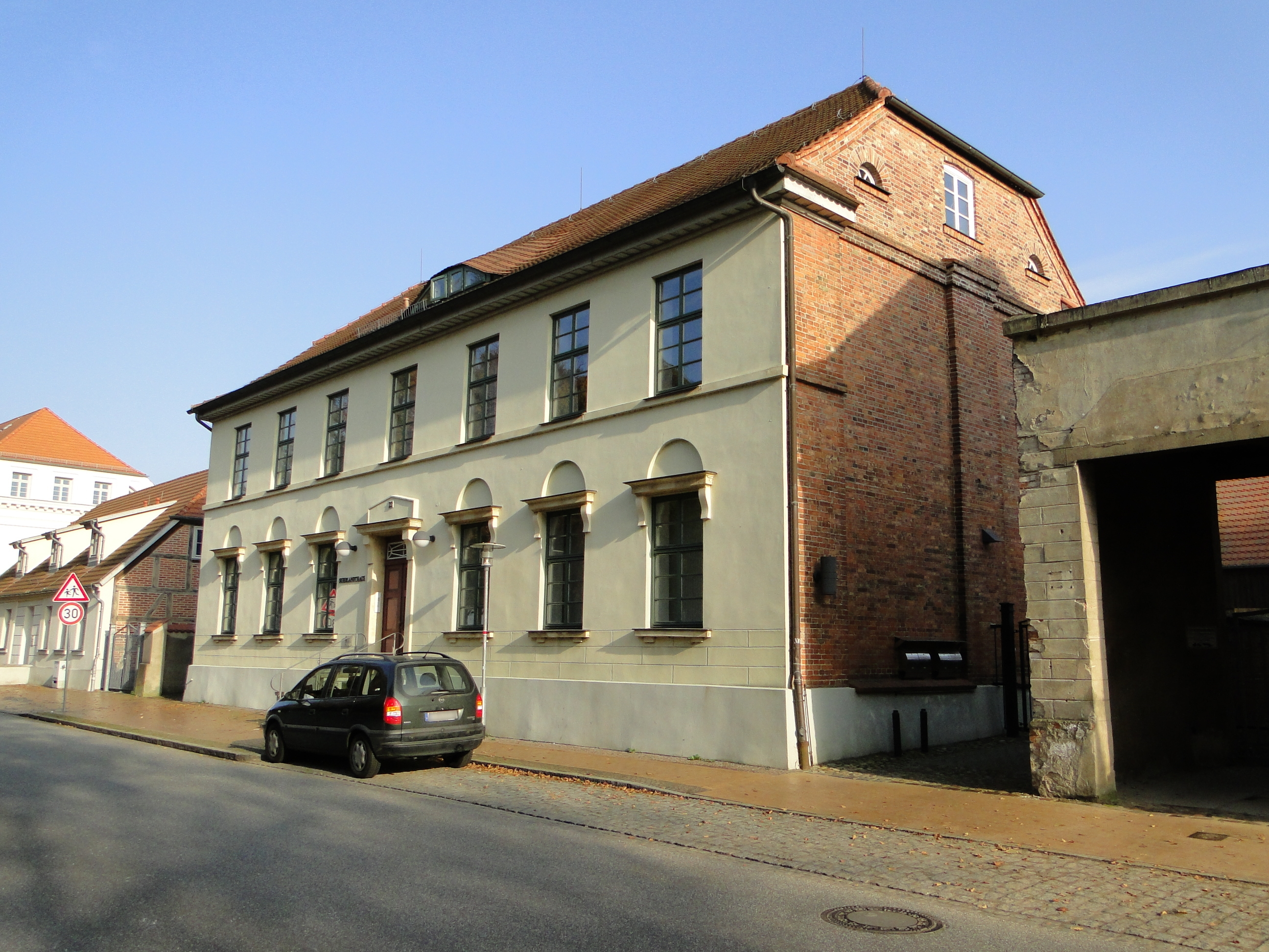 Suhrlandhouse, former home of Rudolph Suhrlandt, in the Kanalstraße 22 in Ludwigslust, district Ludwigslust-Parchim, Mecklenburg-Vorpommern, Germany